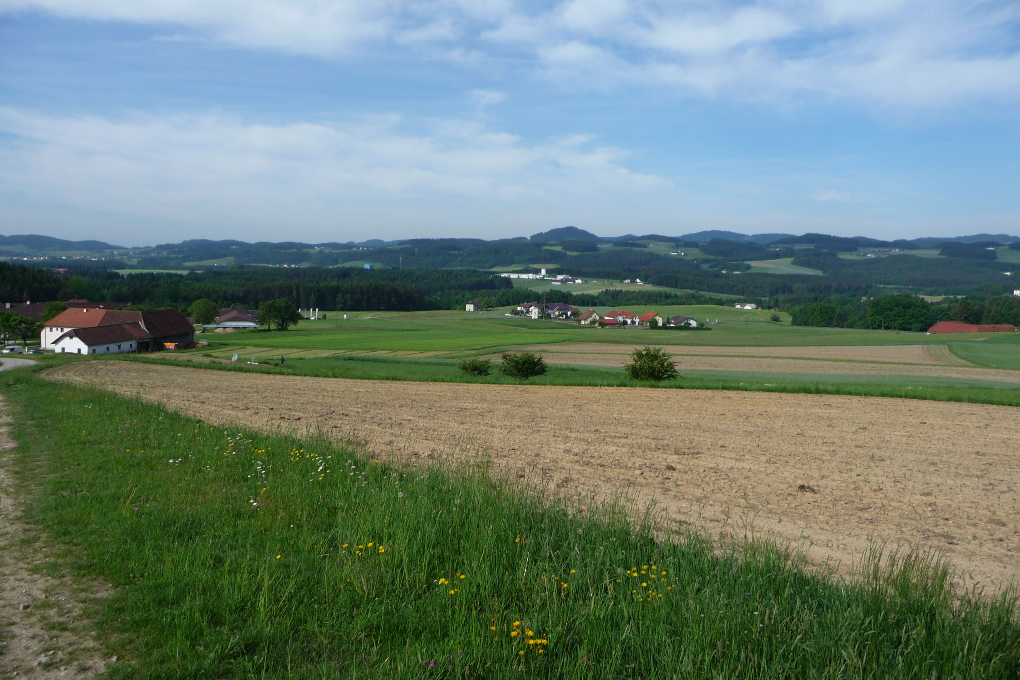 Freistädter Becken seen from Walchshof